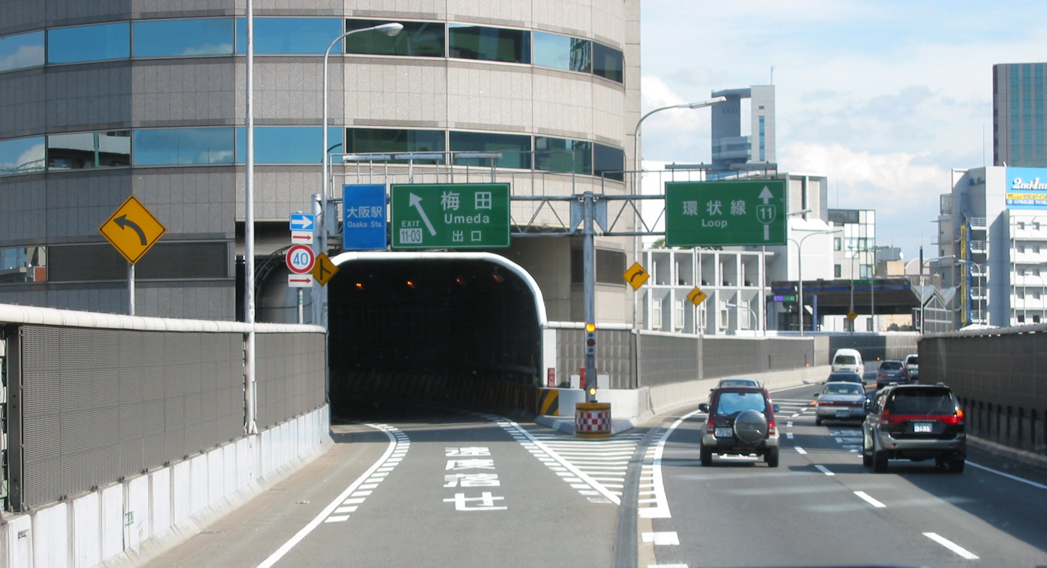 Umeda Exit of the Hanshin Expressway passing through the Gate Tower Building